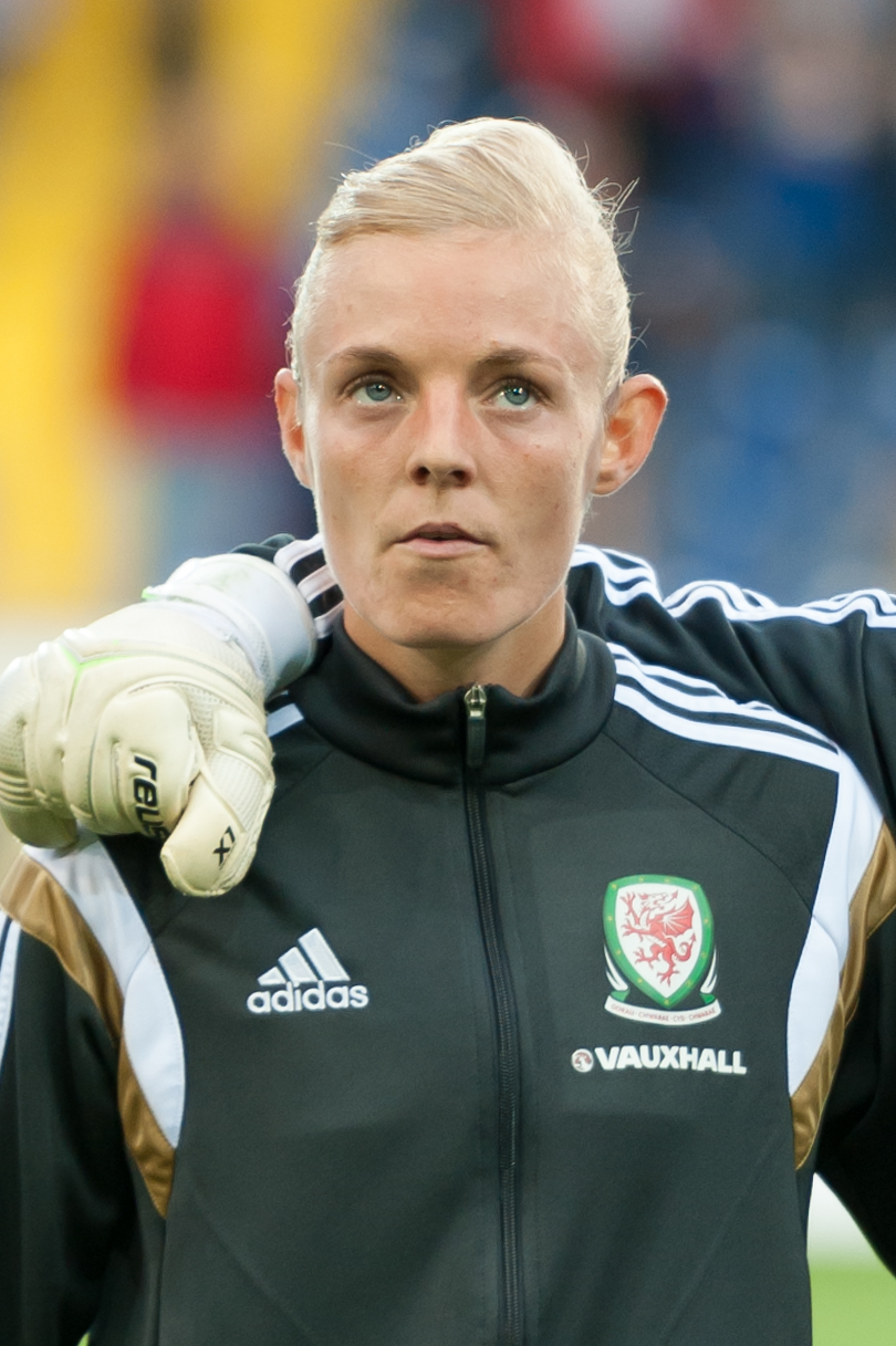 Women's Euro Qualification Austria vs. Wales, 2015-09-22, St. Pölten, Lower Austria